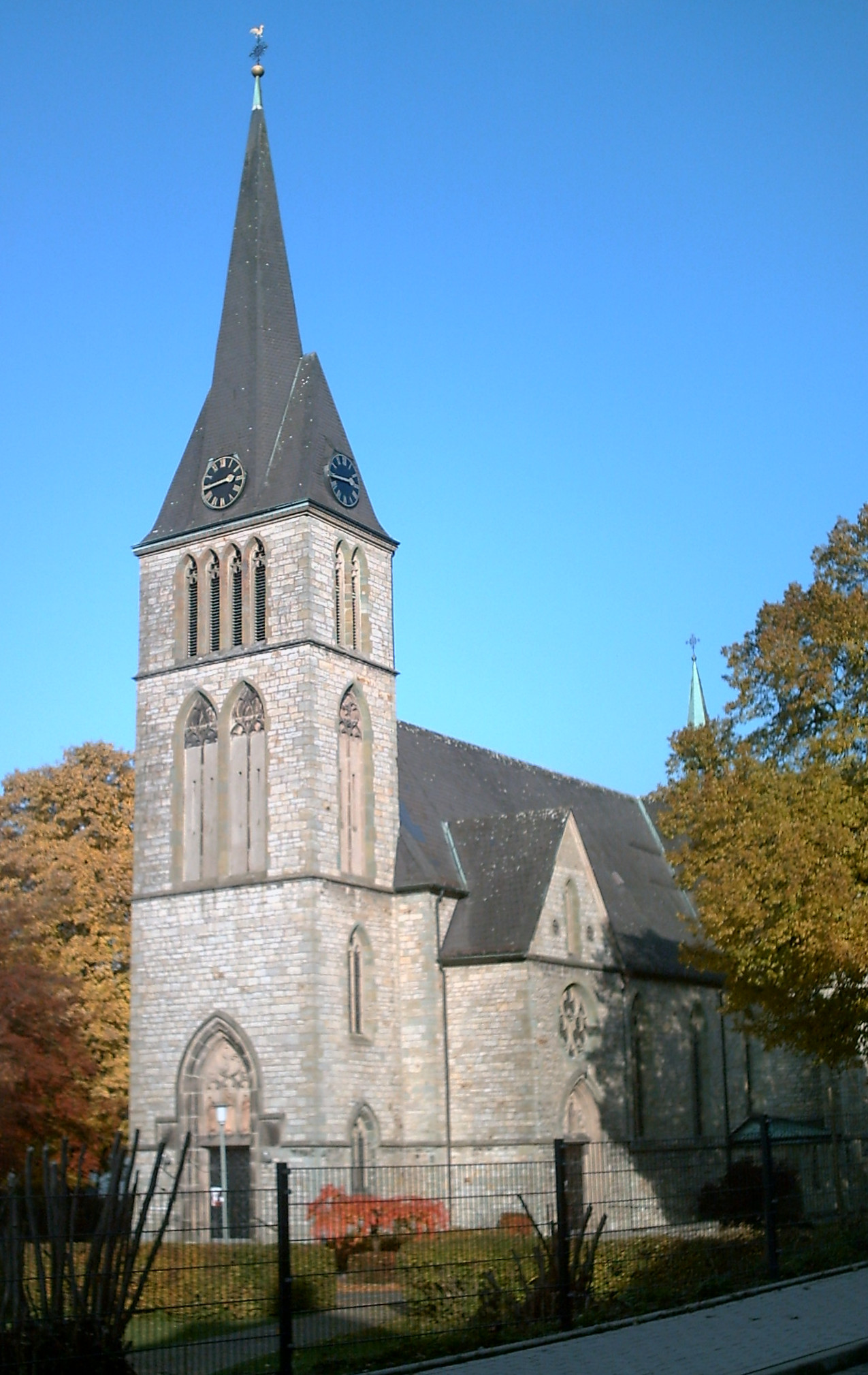 Catholic Holy Cross Church in Altenbeken, Germany